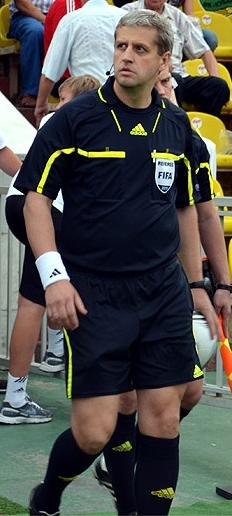 Stanislav Sukhina in 2011.